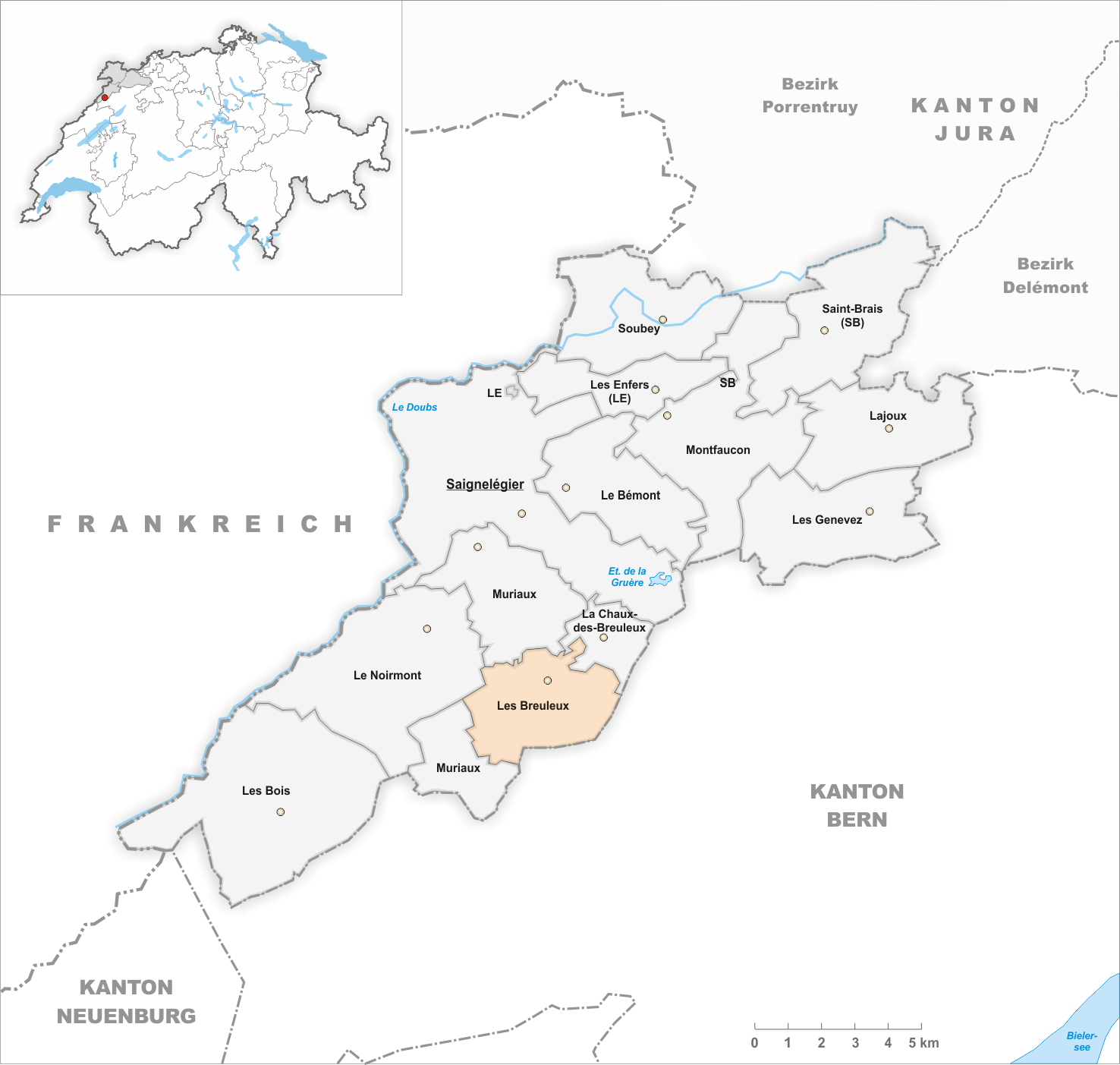 Municipality Les Breuleux